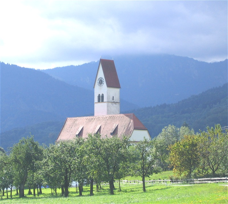 Lippertskirchen, view of the Subsidiary Church of the Assumption from north-west.